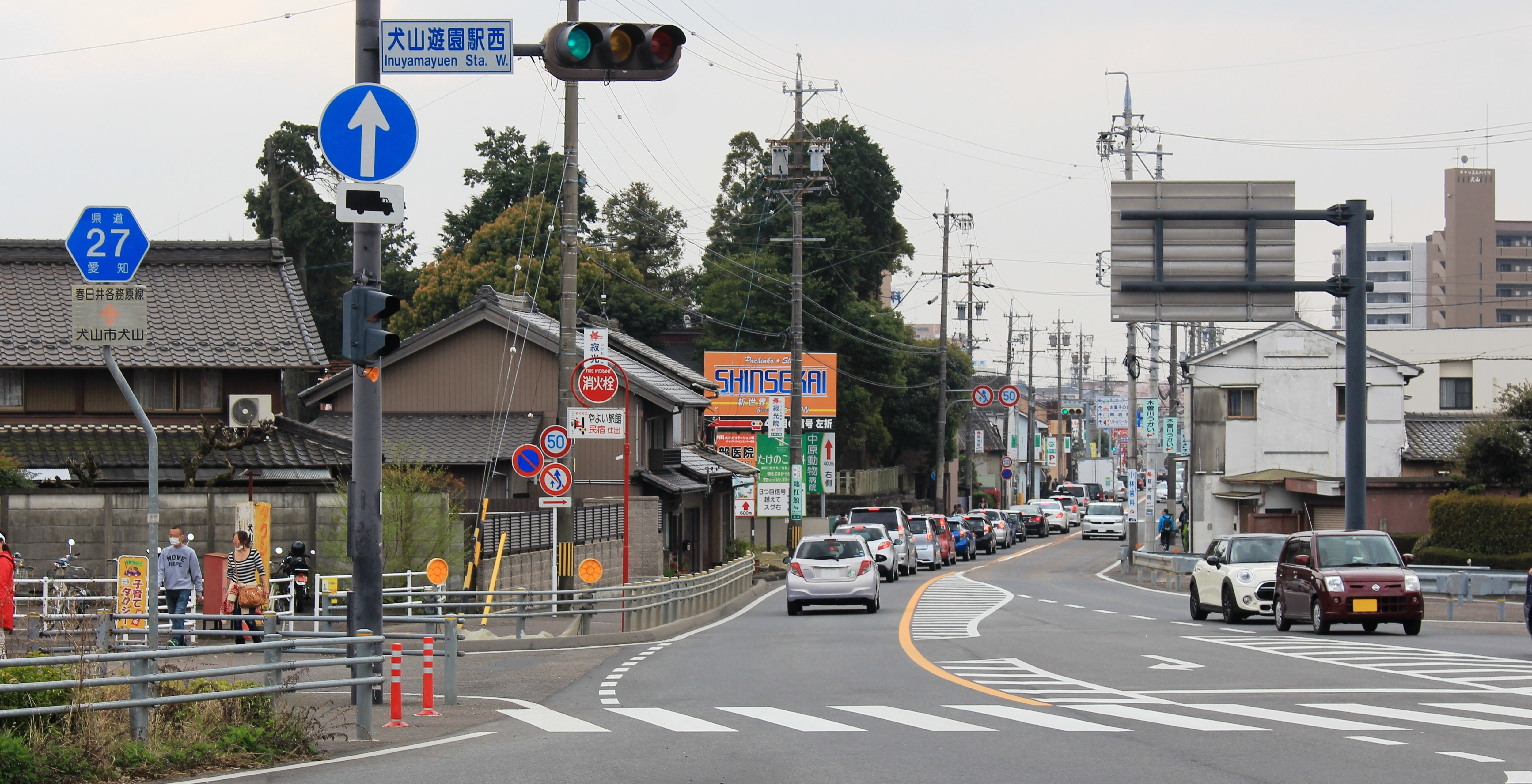 Aichi Prefectural Road Route 27 in Inuyama, Aichi prefecture, Japan.